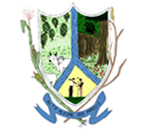 Coat of arm of the city of Alto Alegre dos Parecis, Rondônia, Brazil.